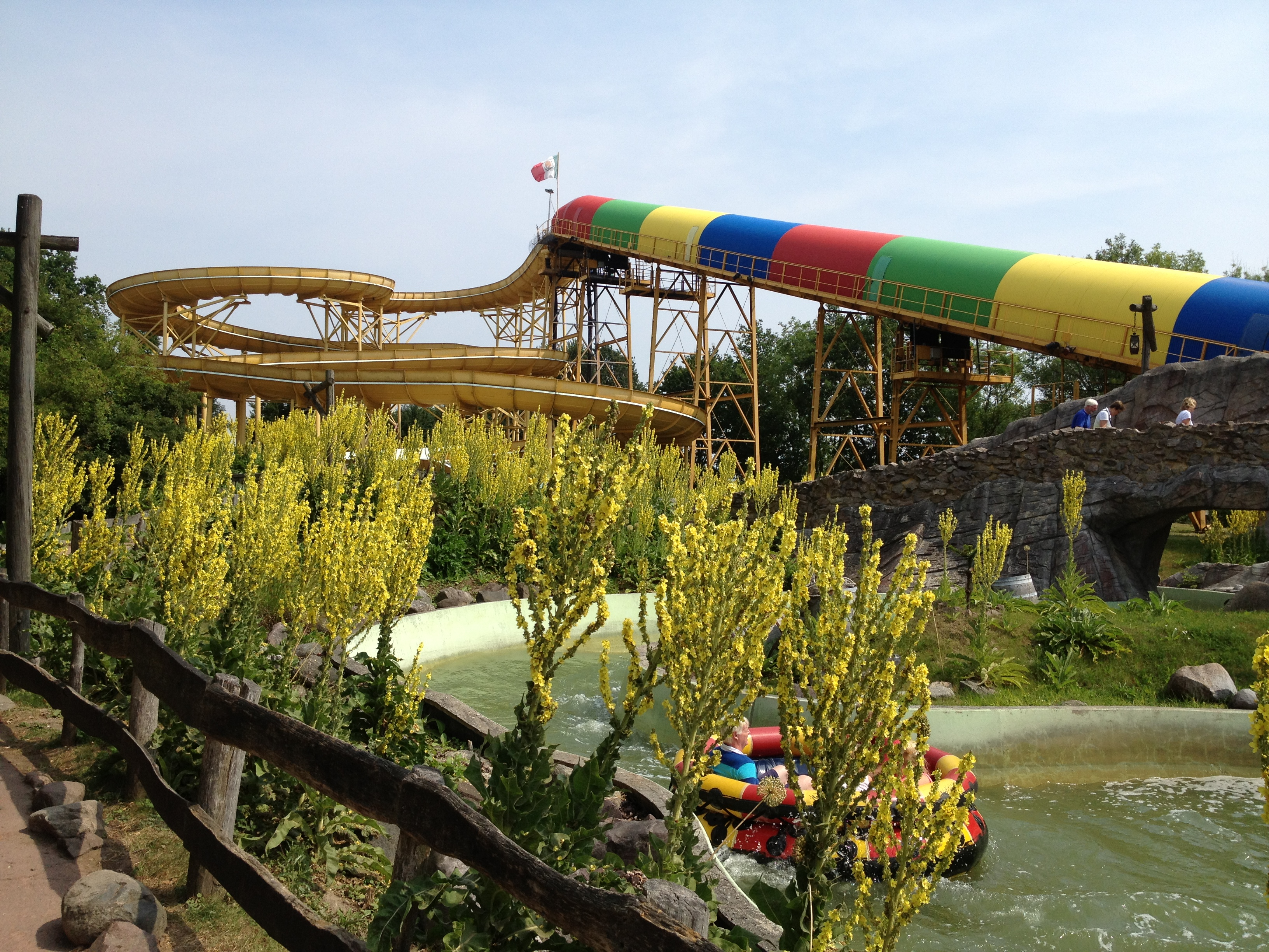 Rio Dorado at Hansa-Park, Germany